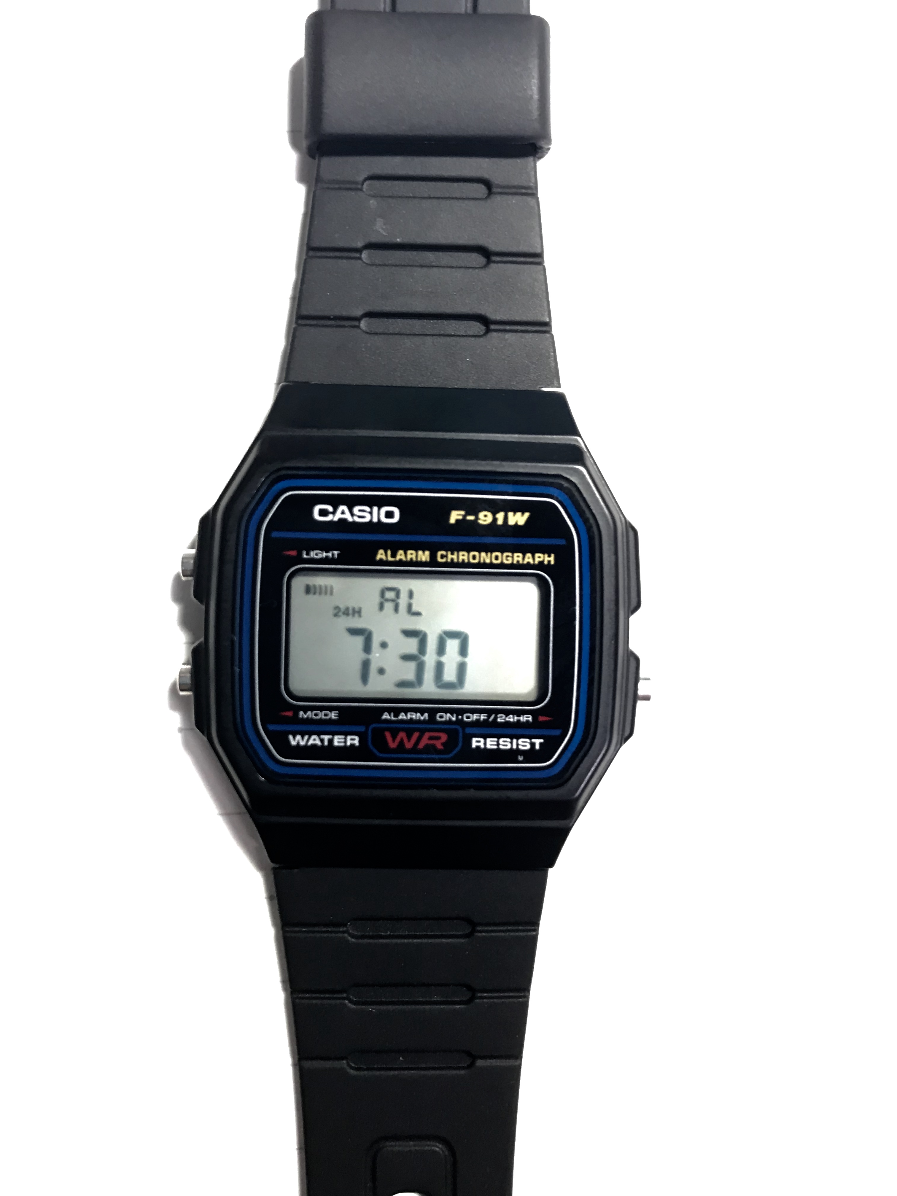 Screen to set alarm of Casio F91W. It has a 24-hour display and is set to sound at 7:30 am.